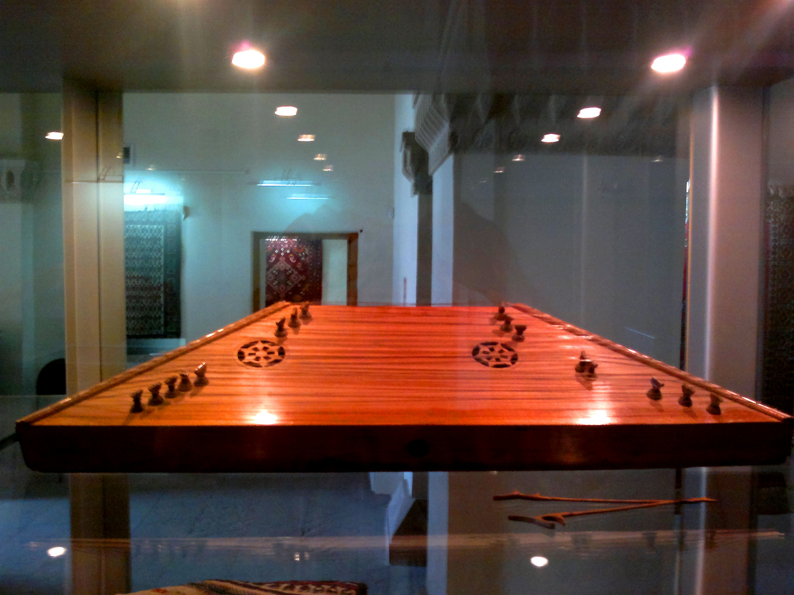 Santur. 15th century. Palace of Shirvanshahs, Baku, Azerbaijan.